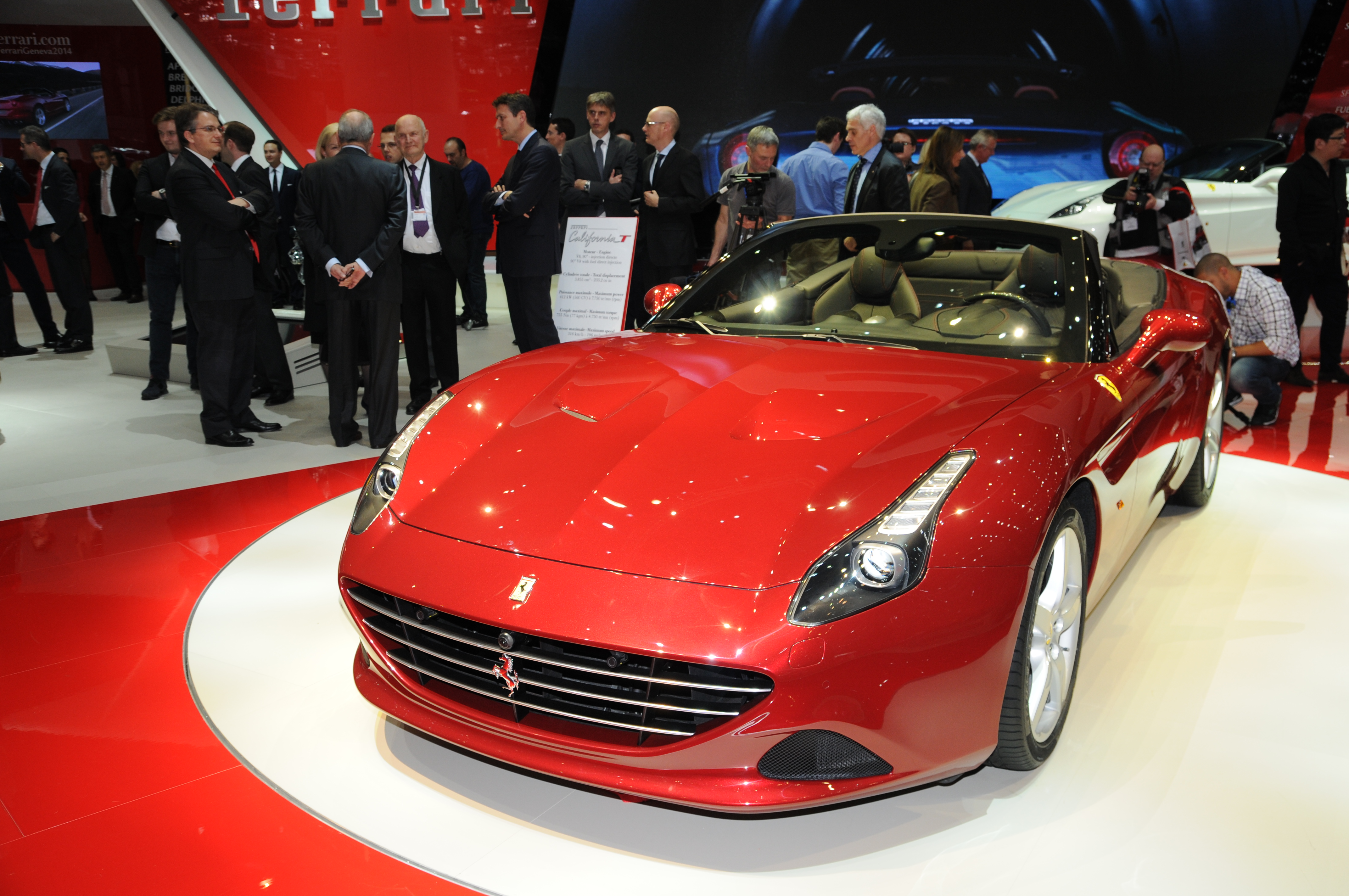 Geneva Motor Show 2014 (photo taken on the first press day)